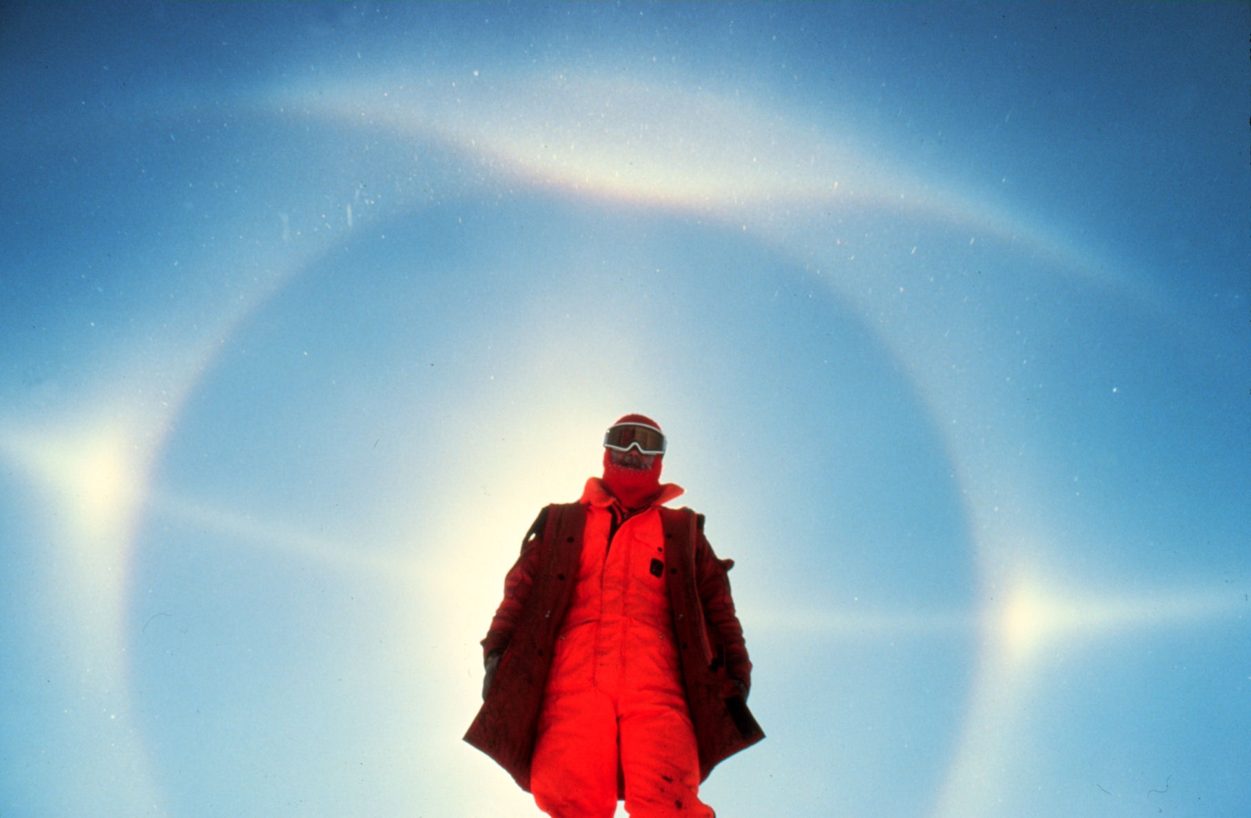 A magnificent halo on south pole. Location: Looking North from the South Pole